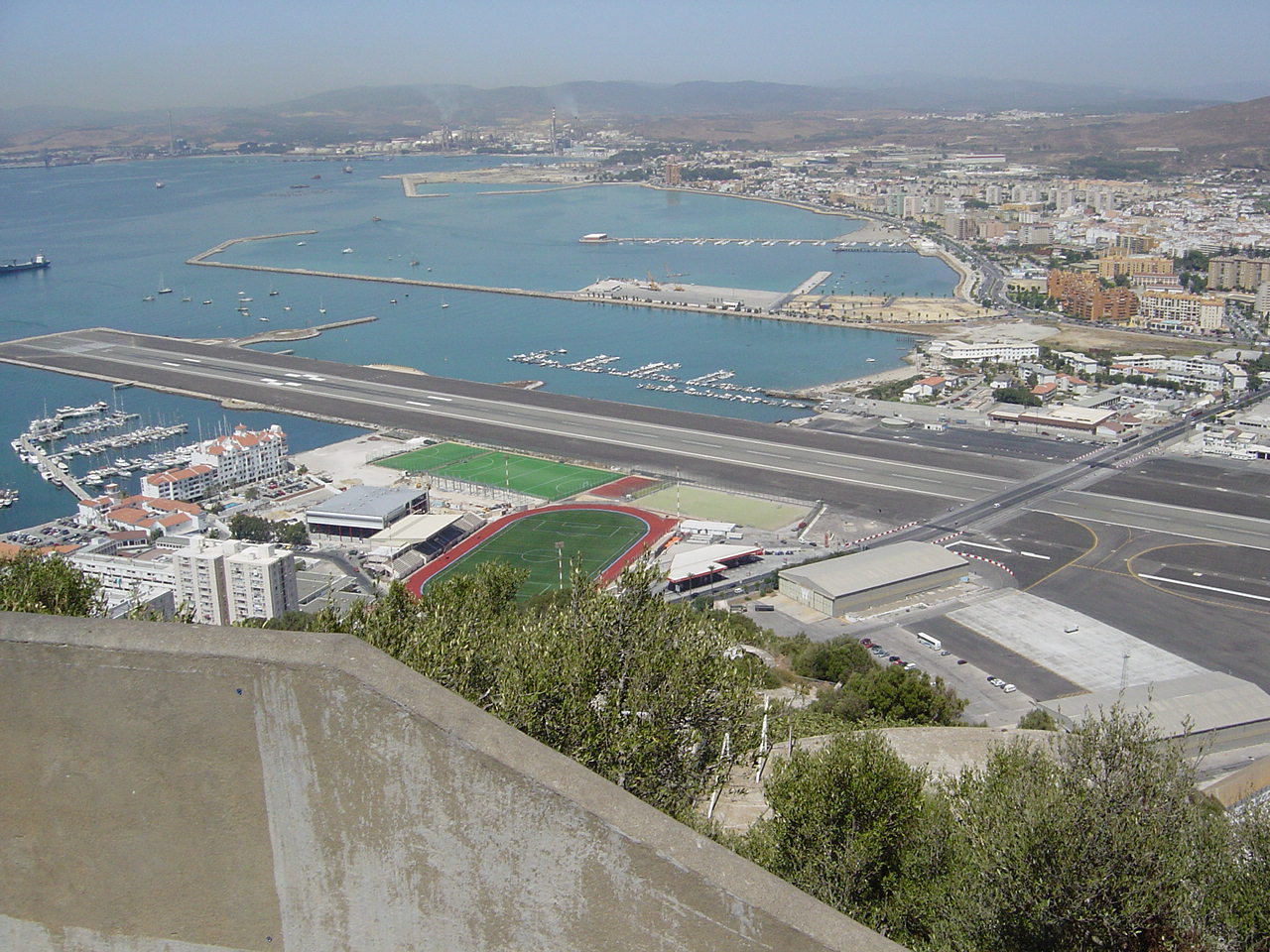 Gibraltar airport runway.